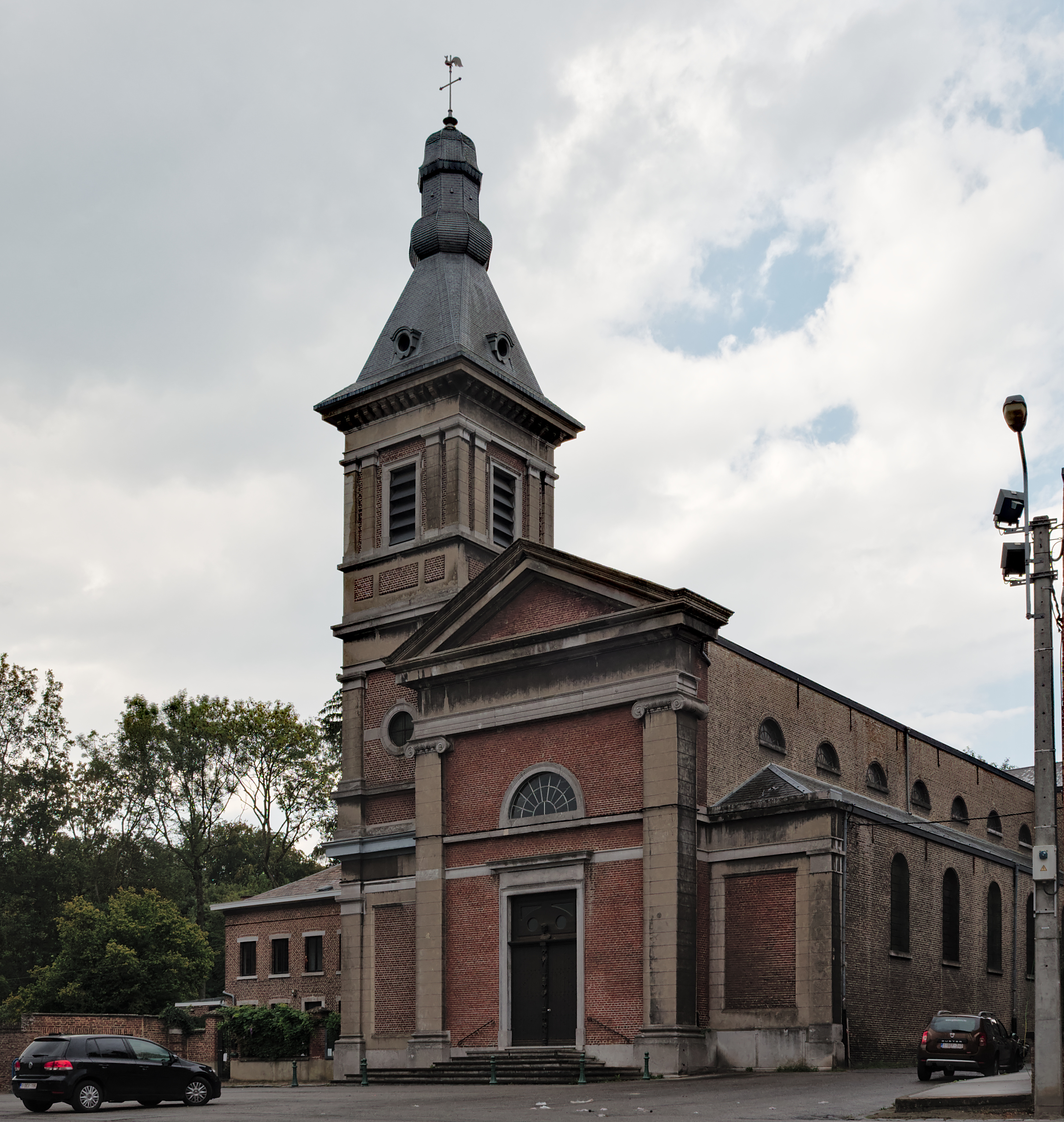 Saint-Louis de Gonzague church in Monceau-sur-Sambre, Charleroi This photo of immovable heritage has been taken in the Walloon Region